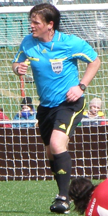 Petur Reinert is a Faroese international FIFA referee. This photo is from a domestic match in Trongisvágur, Faroe Islands at the first match on the new stadium Við Stóra, which is the home field of TB Tvøroyri. Petur Reinert has been a referee in around 370 football matches (in the Faroe Islands and in other countries as of Sep. 2012). Føroyskt: Petur Reinert er ein føroyskur fótbólts dómari, sum er góðkendur til at døma altjóða dystir. Hann hevur dømt umleið 370 dystir í Føroyum og í øðrum londum (smb. 14-09-2012). Her dømir hann millum TB og ÍF í fyrsta dystinum sum varð leiktur á vøllinum Við Stórá hin 29. apríl 2012.